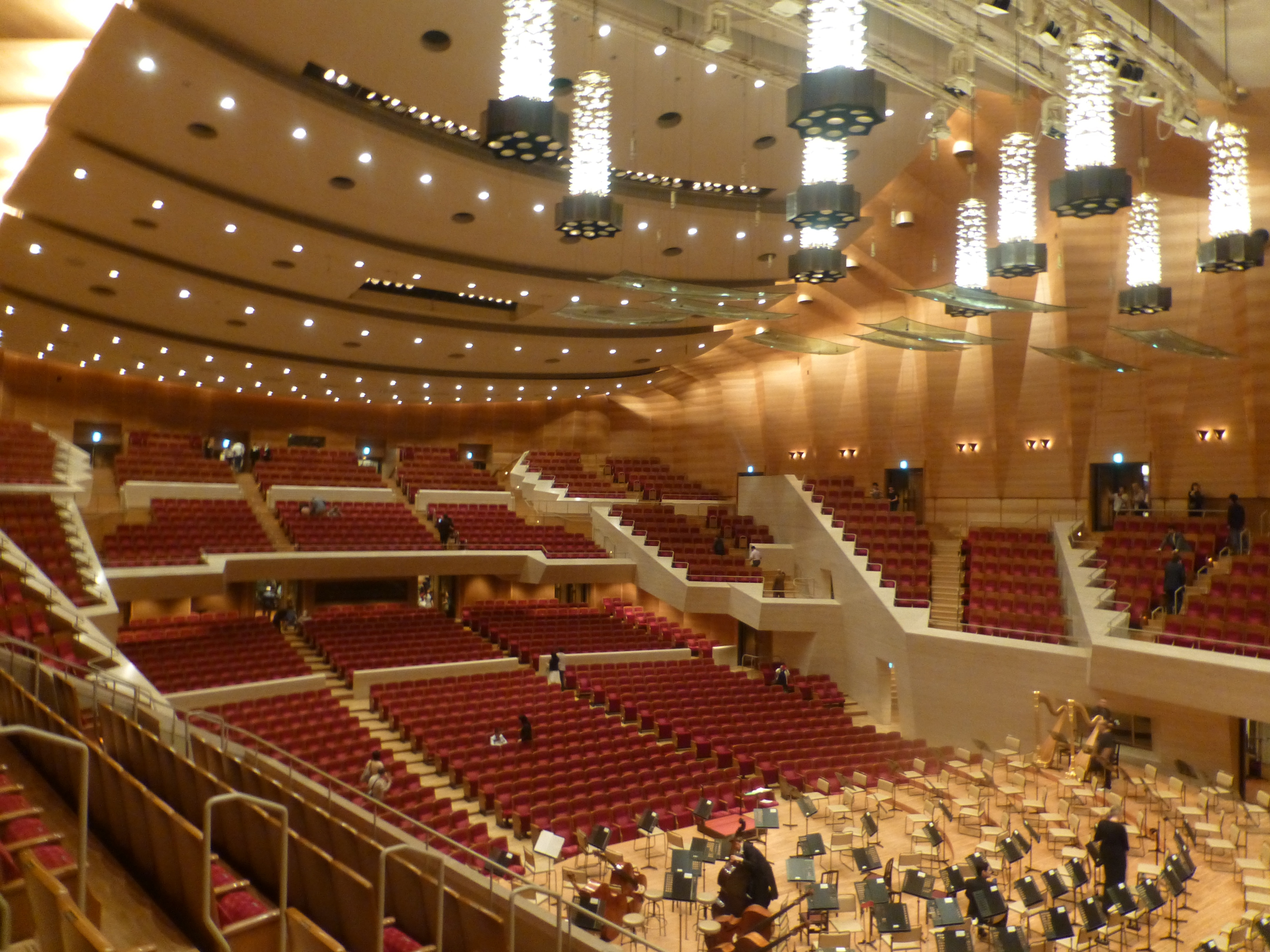 Suntory Hall inside